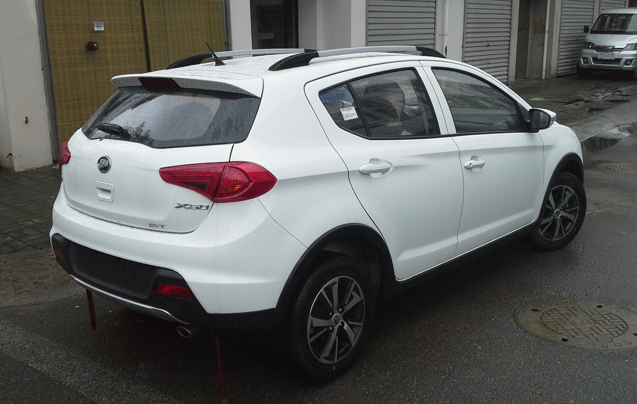 Lifan X50 photographed in Shanghai, China.